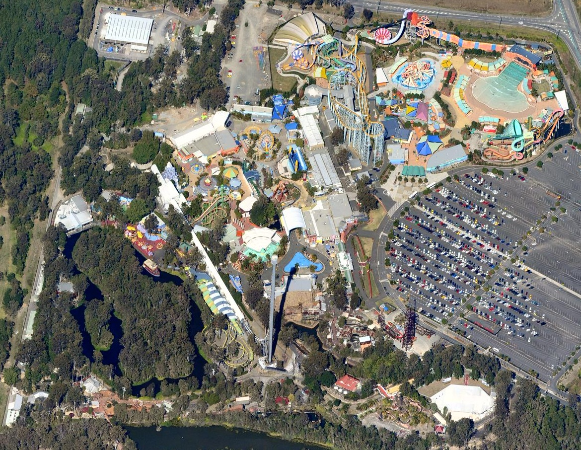 An aerial image of Dreamworld and WhiteWater World on the Gold Coast, Australia.